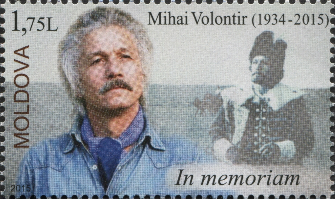 Stamps of Moldova, 2015